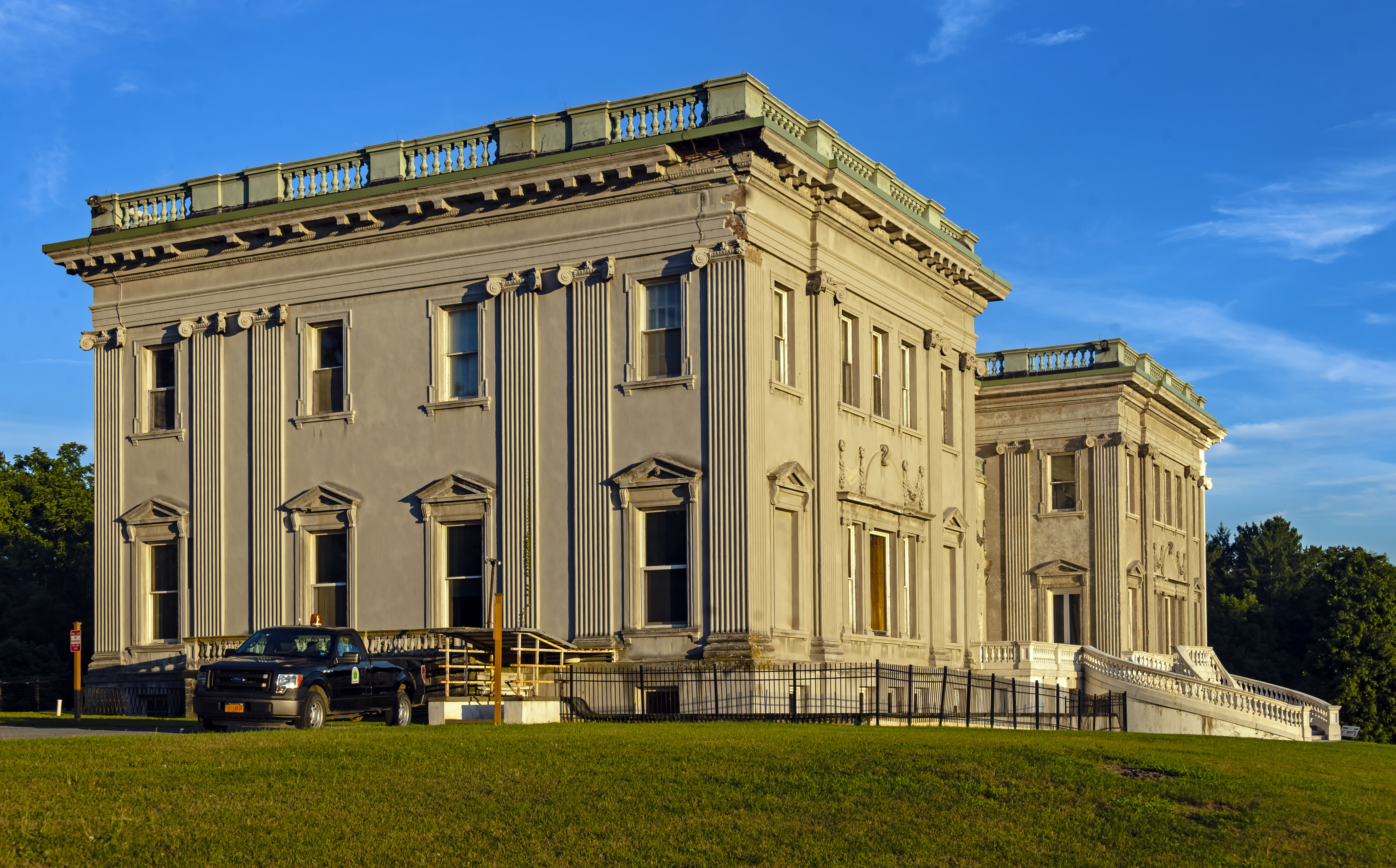 Mills–Livingston Mansion at Staatsburgh State Historic Site on the Hudson River, from its northwest, lit by the setting sun.